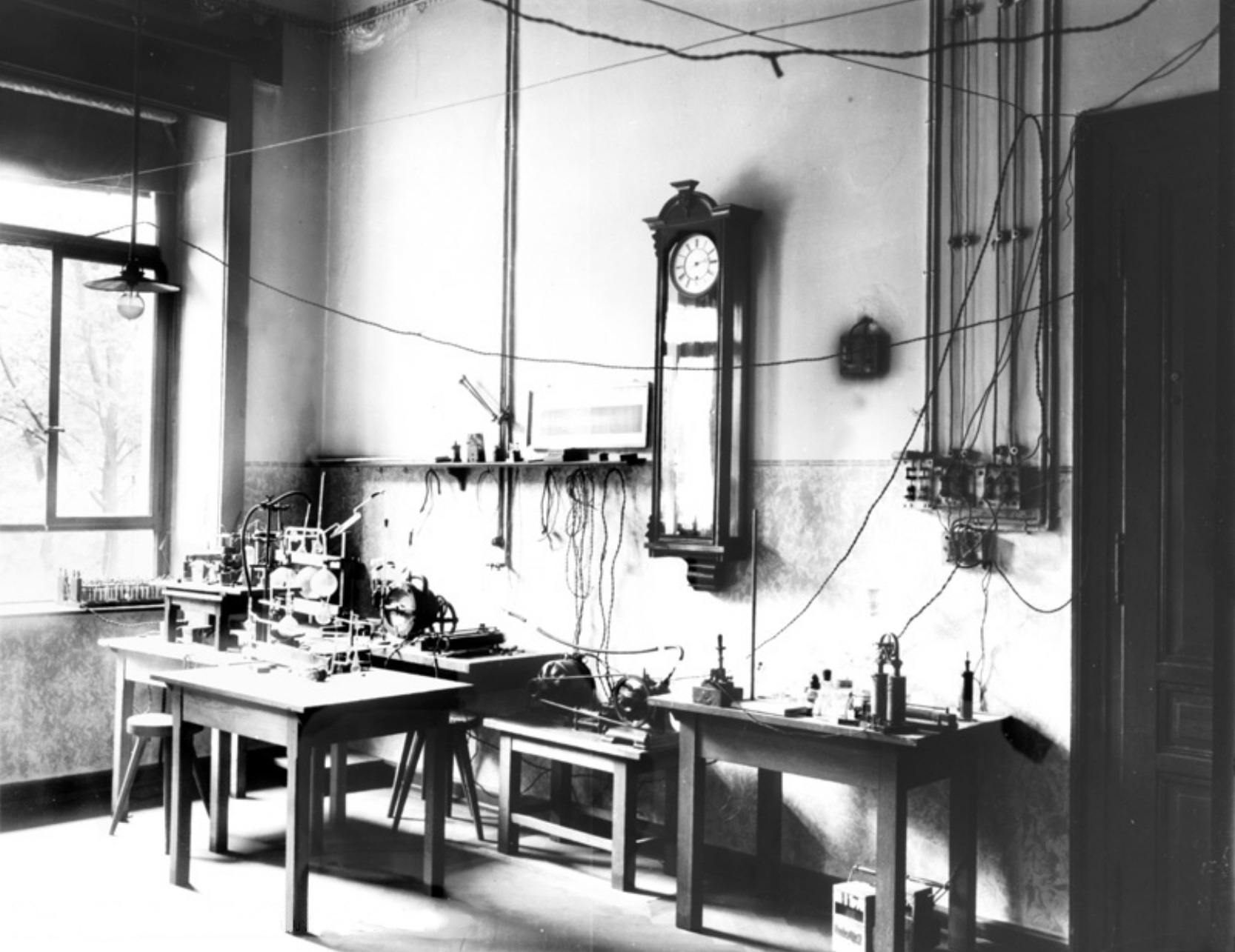 The laboratory of Wilhelm Röntgen at the University of Würzburg, where he made his discovery of x-rays.